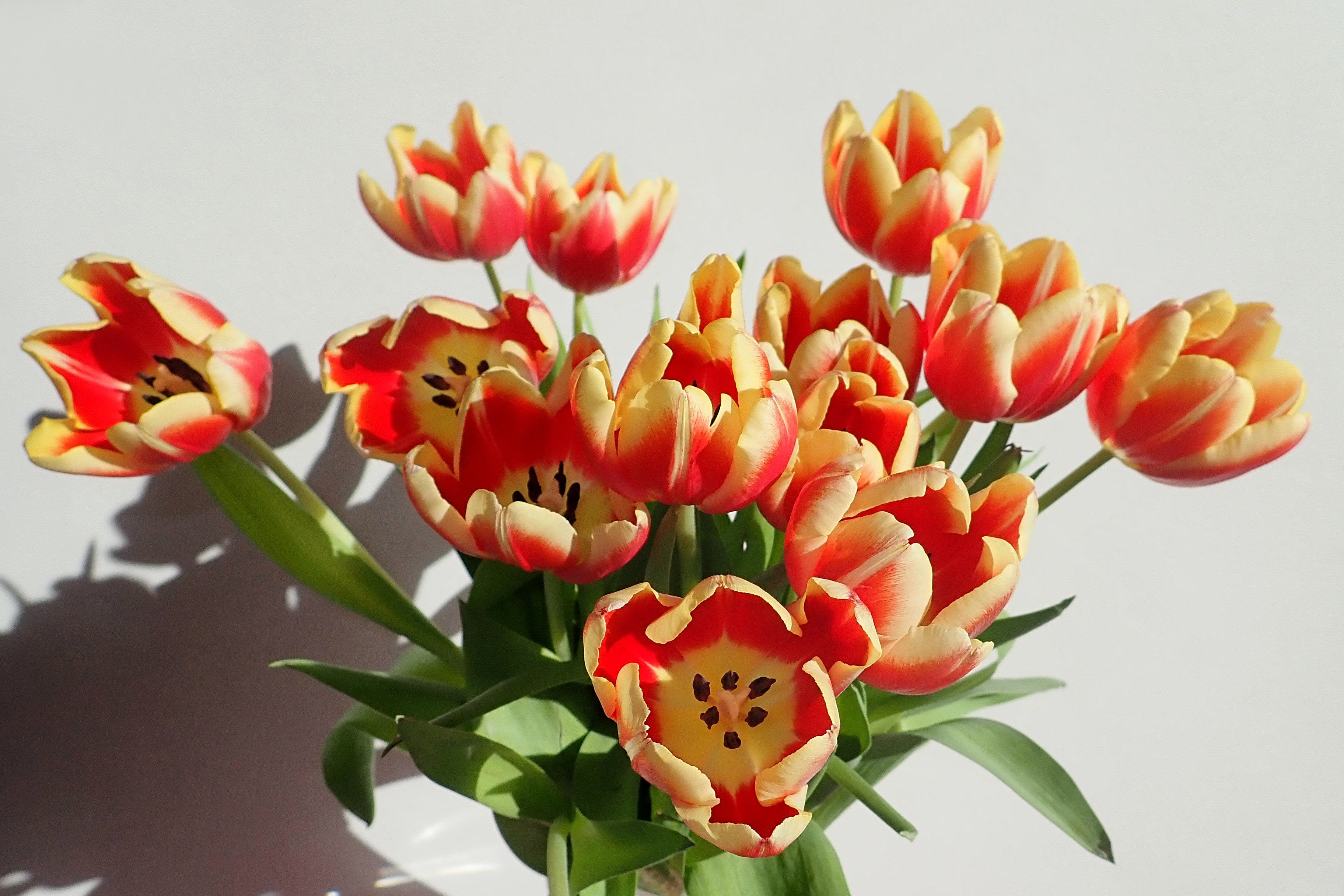 Bouquet of tulips.